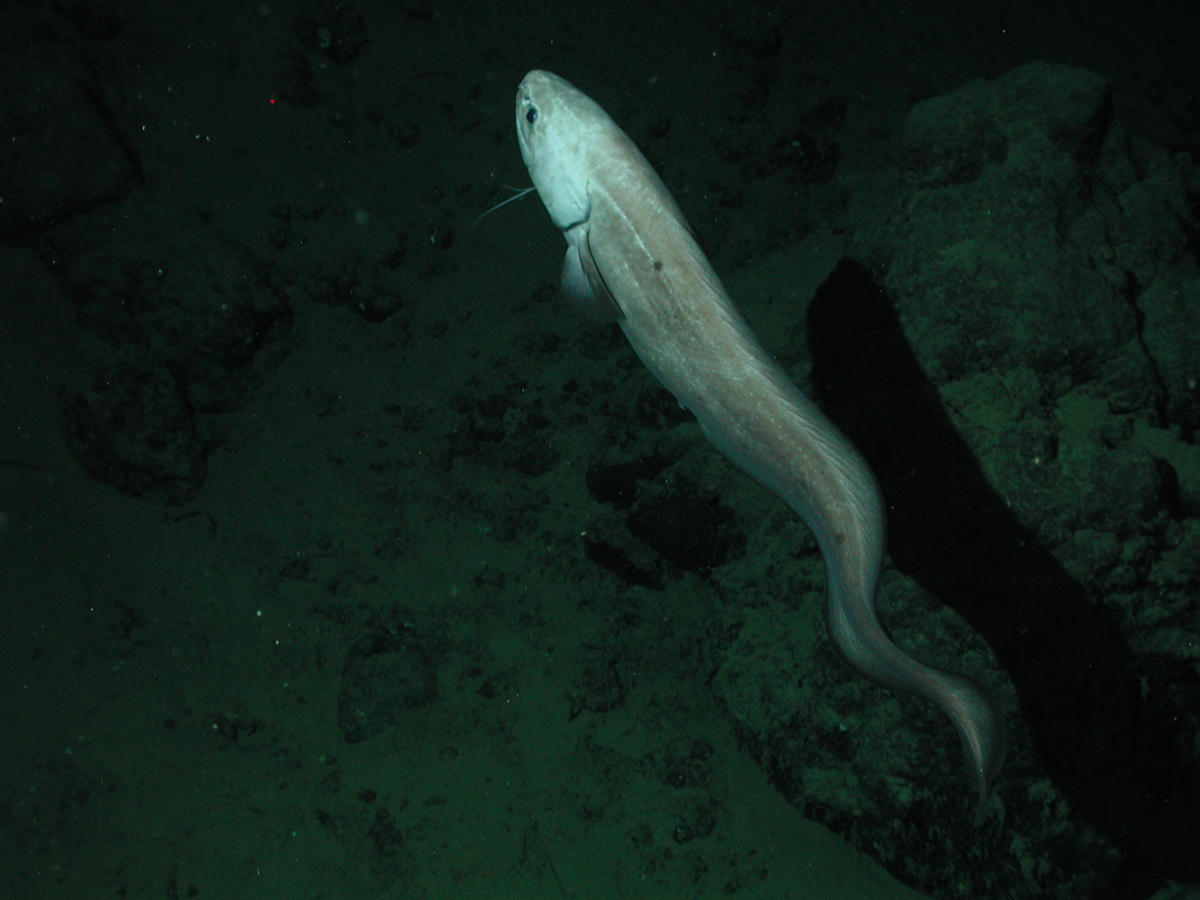 Giant cusk-eel (Spectrunculus grandis); approximately 60 cm total length; at the Davidson Seamount (2677 meters depth).